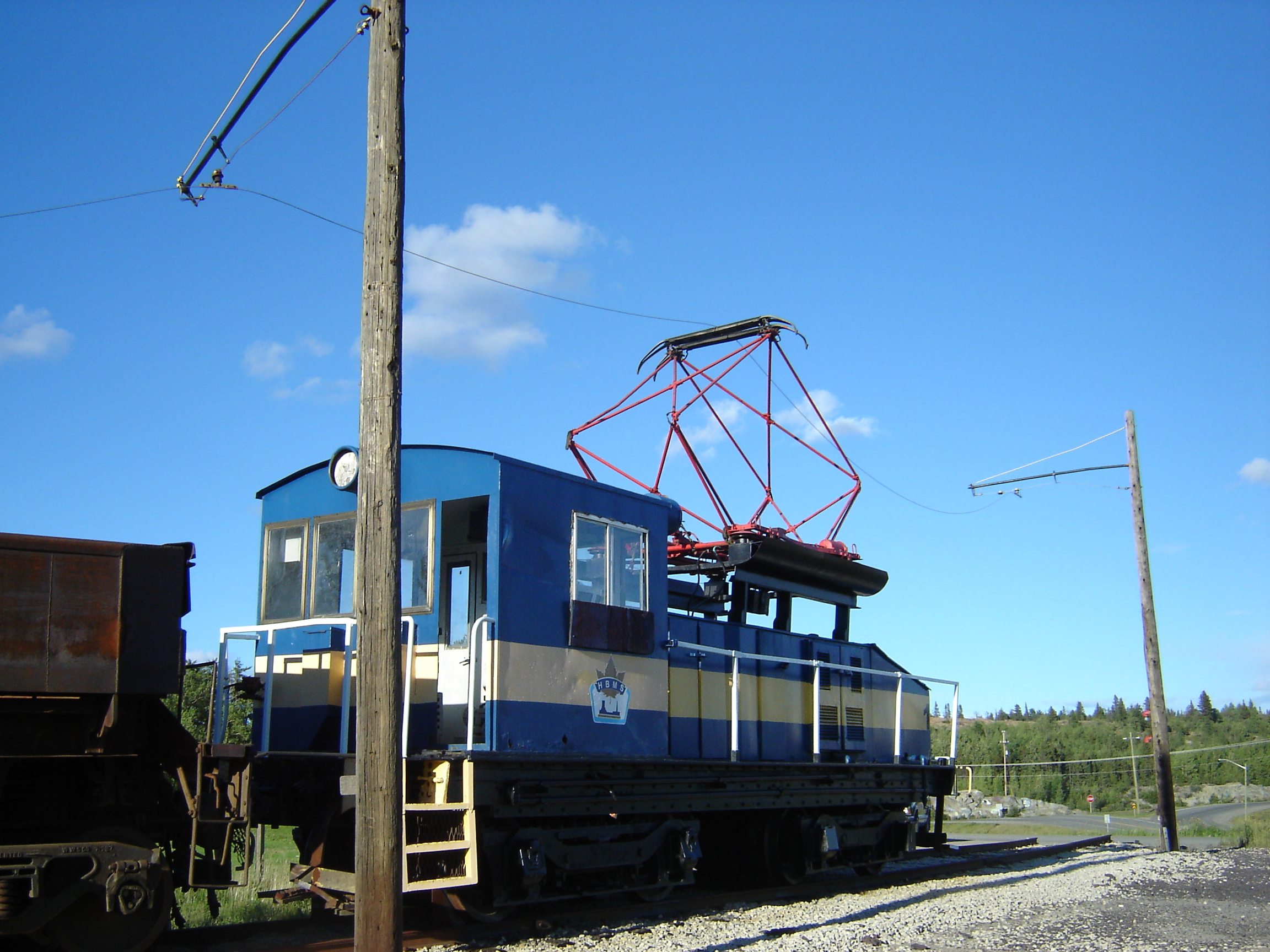 A DC Electric Locomotive used in surface smelter operations at the Hudson's Bay Mining and Smelting Company in Flin Flon, Manitoba. Though no longer in service, this locomotive is on display with an attached ore car at the Flin Flon Museum.